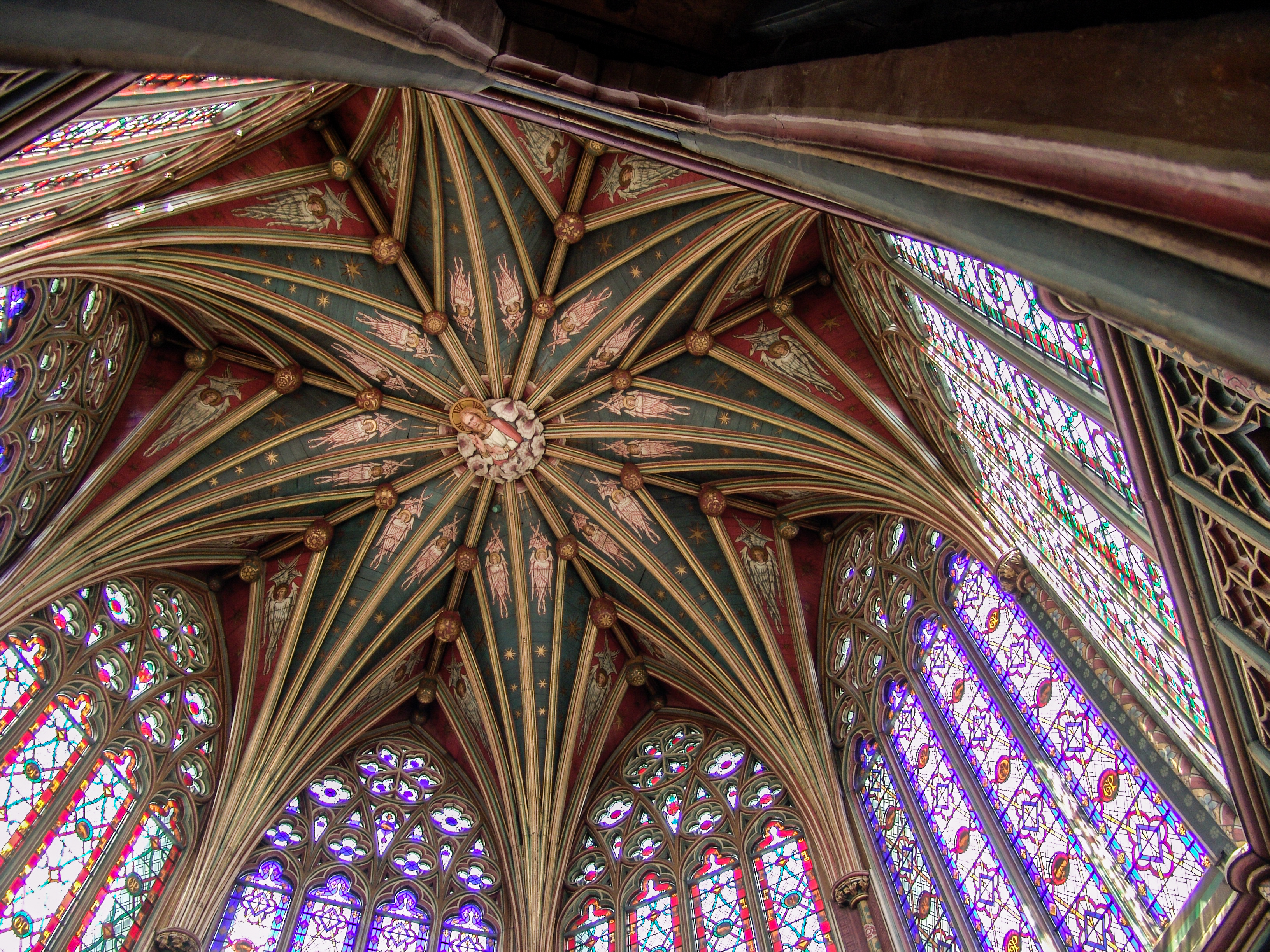 Vault of the lantern of Ely Cathedral, Cambridgeshire